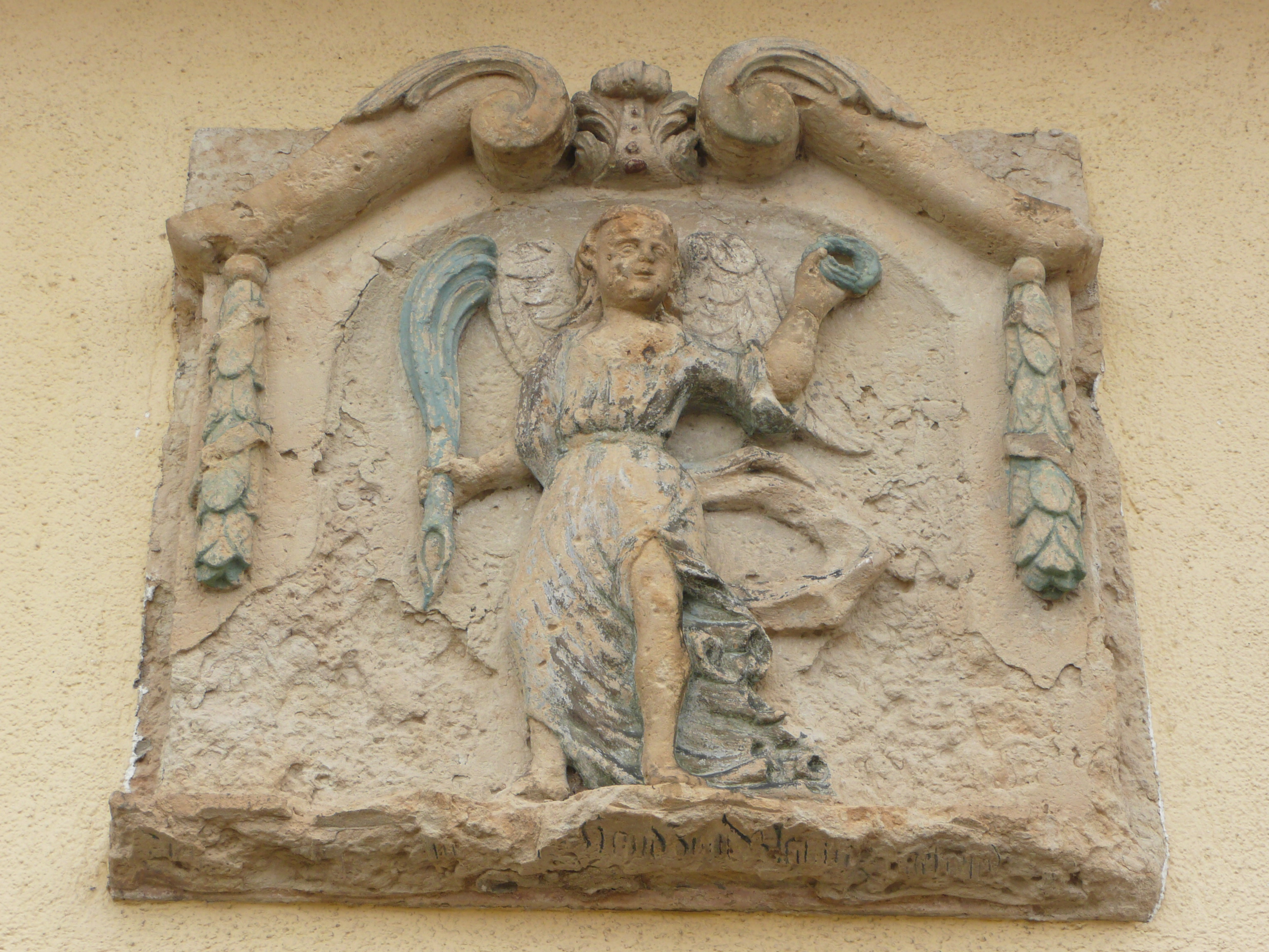 Stone with relief „Blauer Engel“ in copied archway of the today´s housing area in Lange Straße, Panitzsch — formerly manor with tavern at the same site.